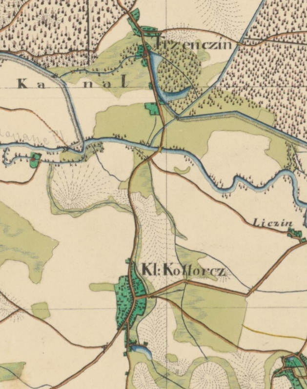 Map of Kotórz Mały